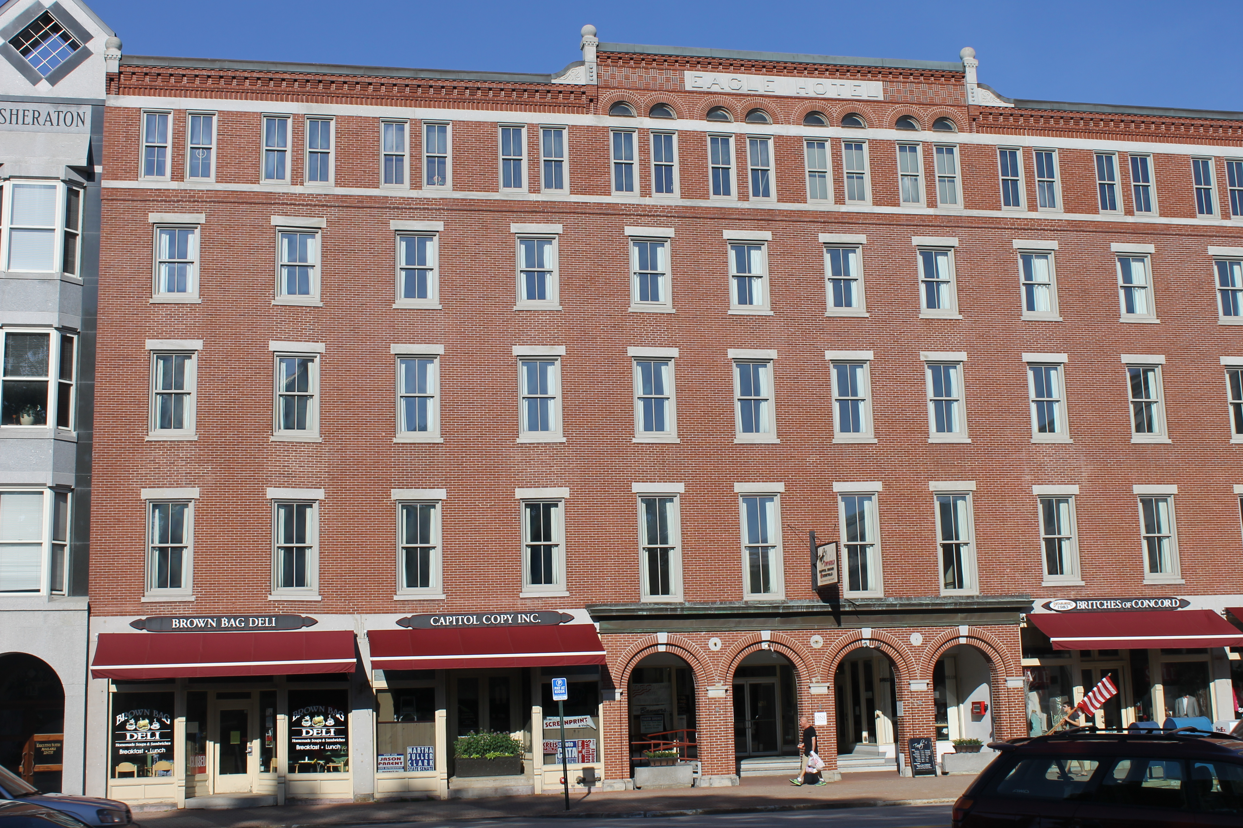 I took photo with Canon camera of former Eagle Hotel in Concord, NH.